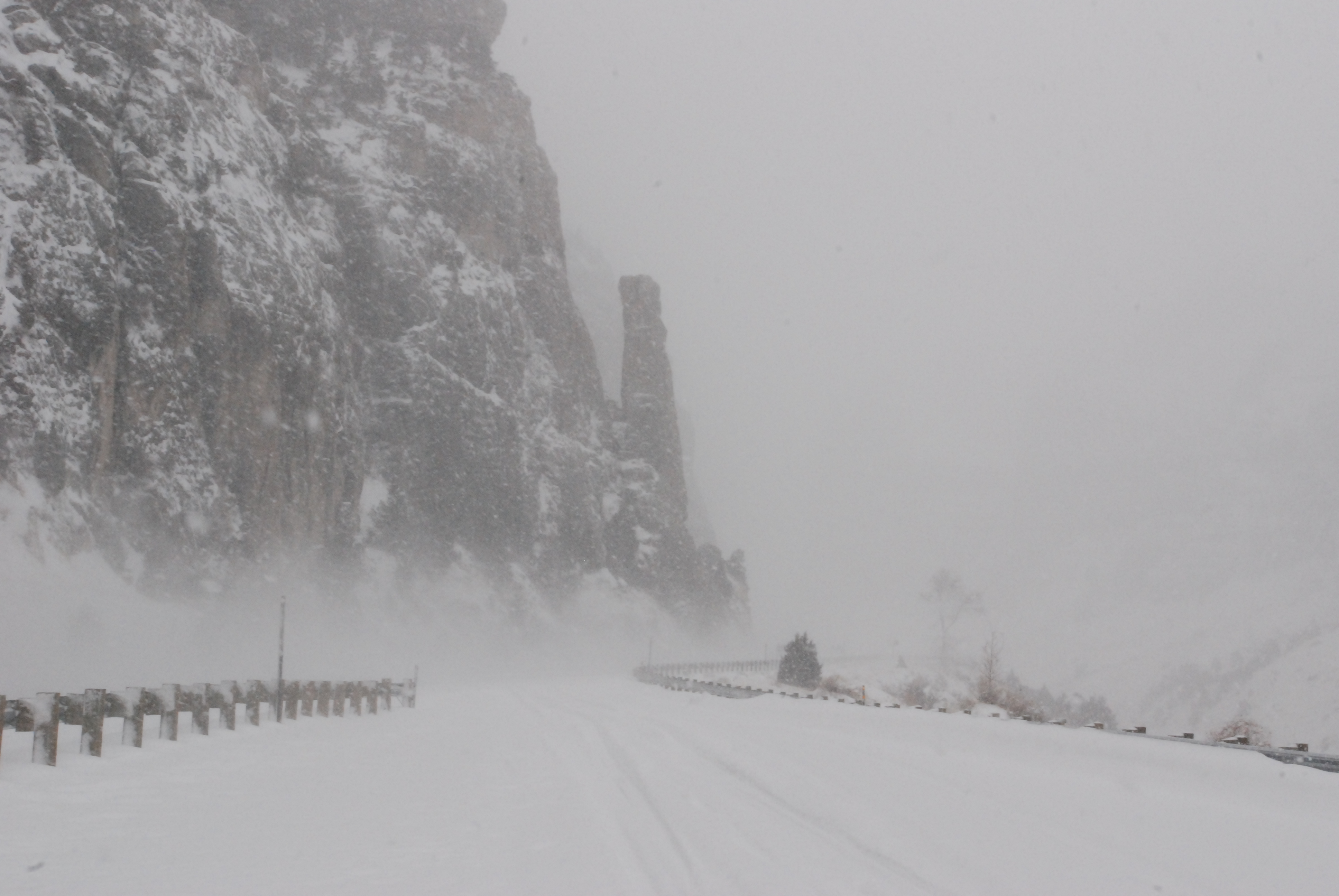 Wind River Canyon